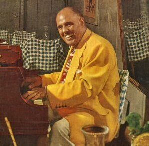 Fats Pichon, photo from cover of 1950s LP jacket (with no date or copyright info).